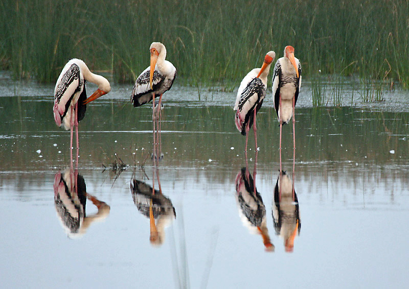 Painted Stork Mycteria leucocephala at/ near Hodal in Faridabad District of Haryana, India.